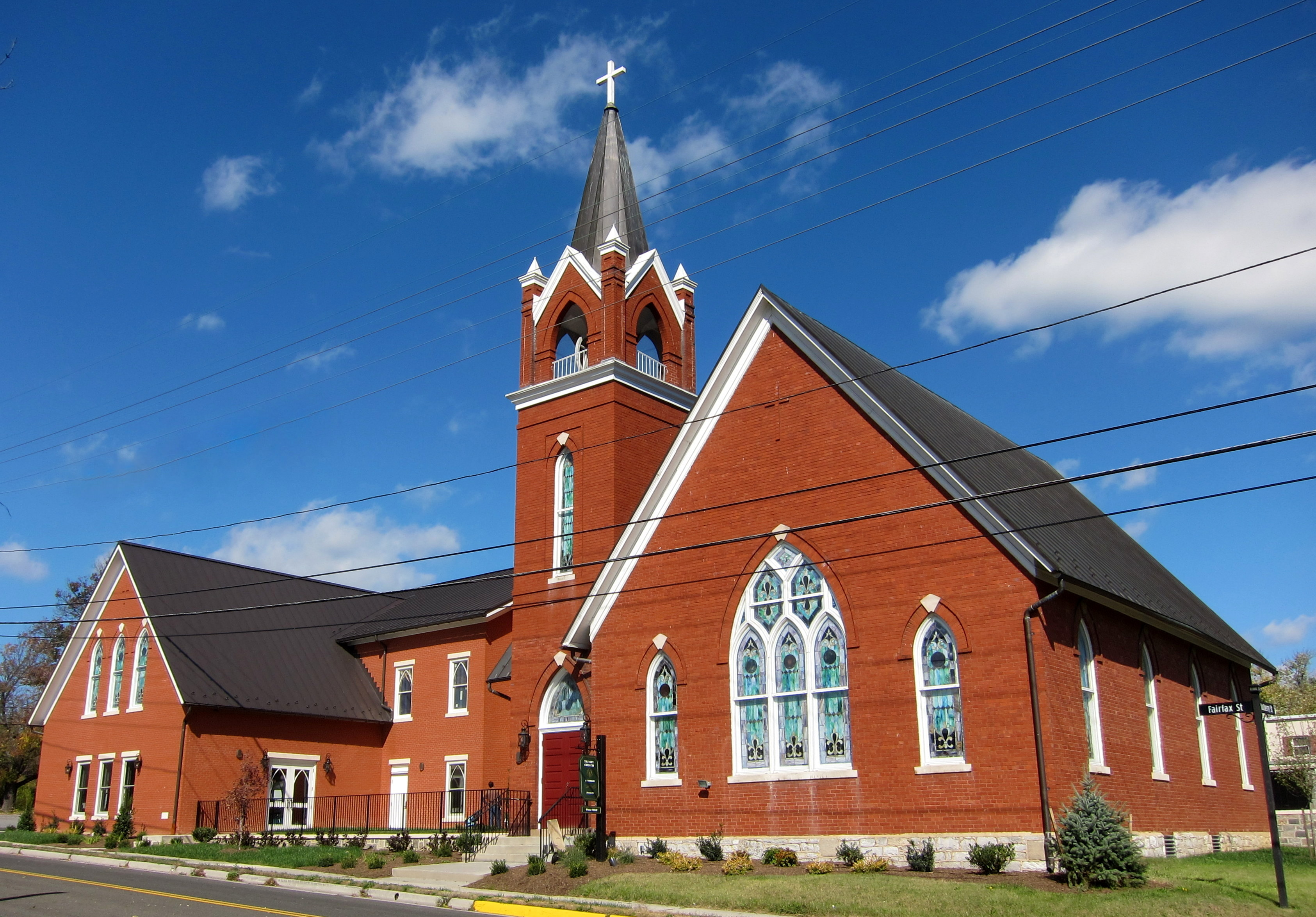 Trinity Lutheran Church (est. 1765) located at 810 Fairfax Pike in Stephens City, Virginia. The Gothic Revival church, built in 1906, is designated as a contributing property to the Newtown-Stephensburg Historic District, listed on the National Register of Historic Places in 1992.